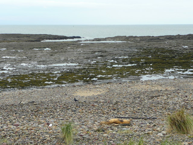 Pwll Dafan The name of the inlet into the platform of rocks at Sker Point. Looking west from the coast path.